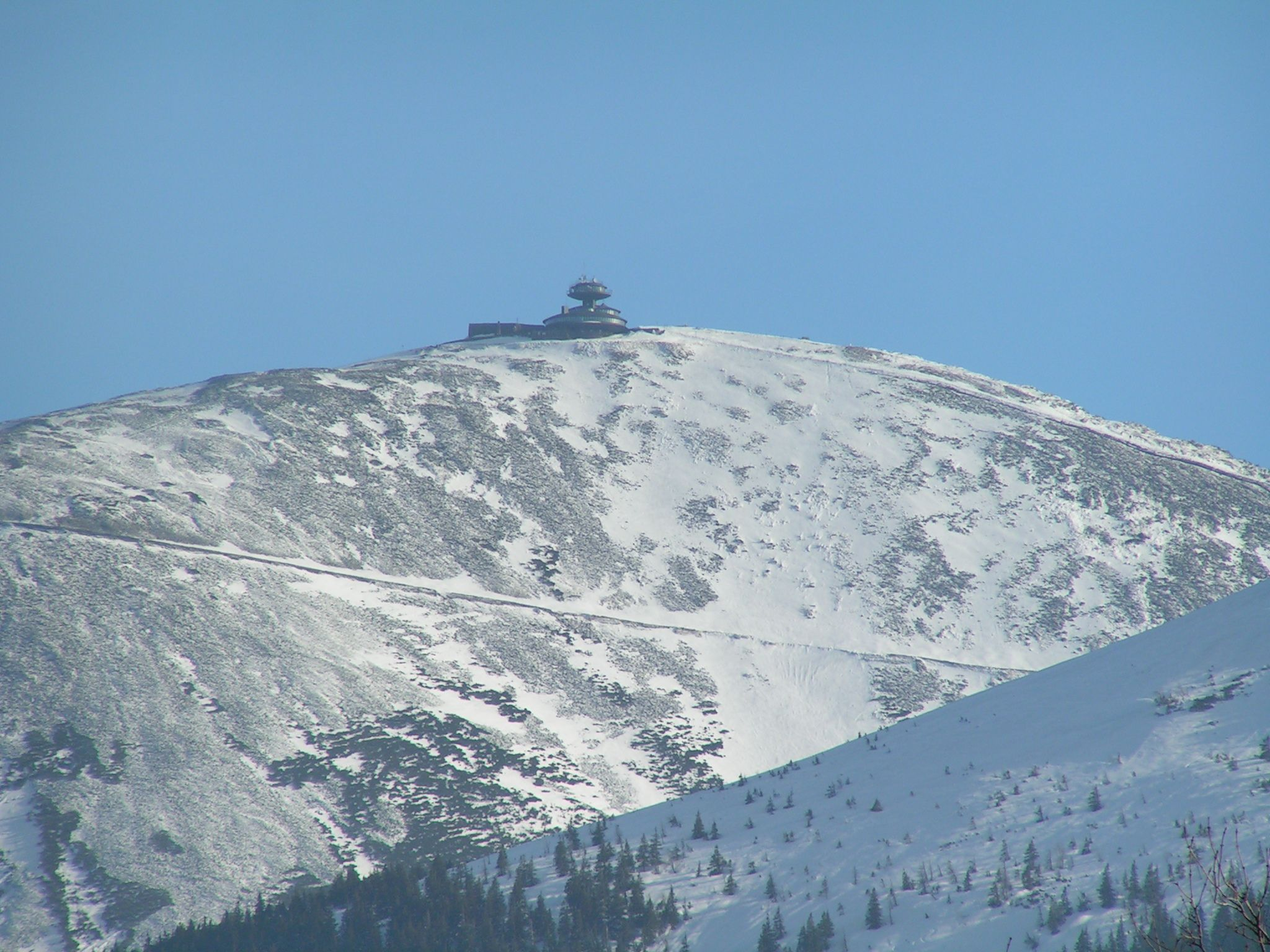 Snezka, View from Karpacz, Poland